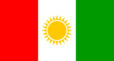 Flag of the Northeastern Province, Sri Lanka